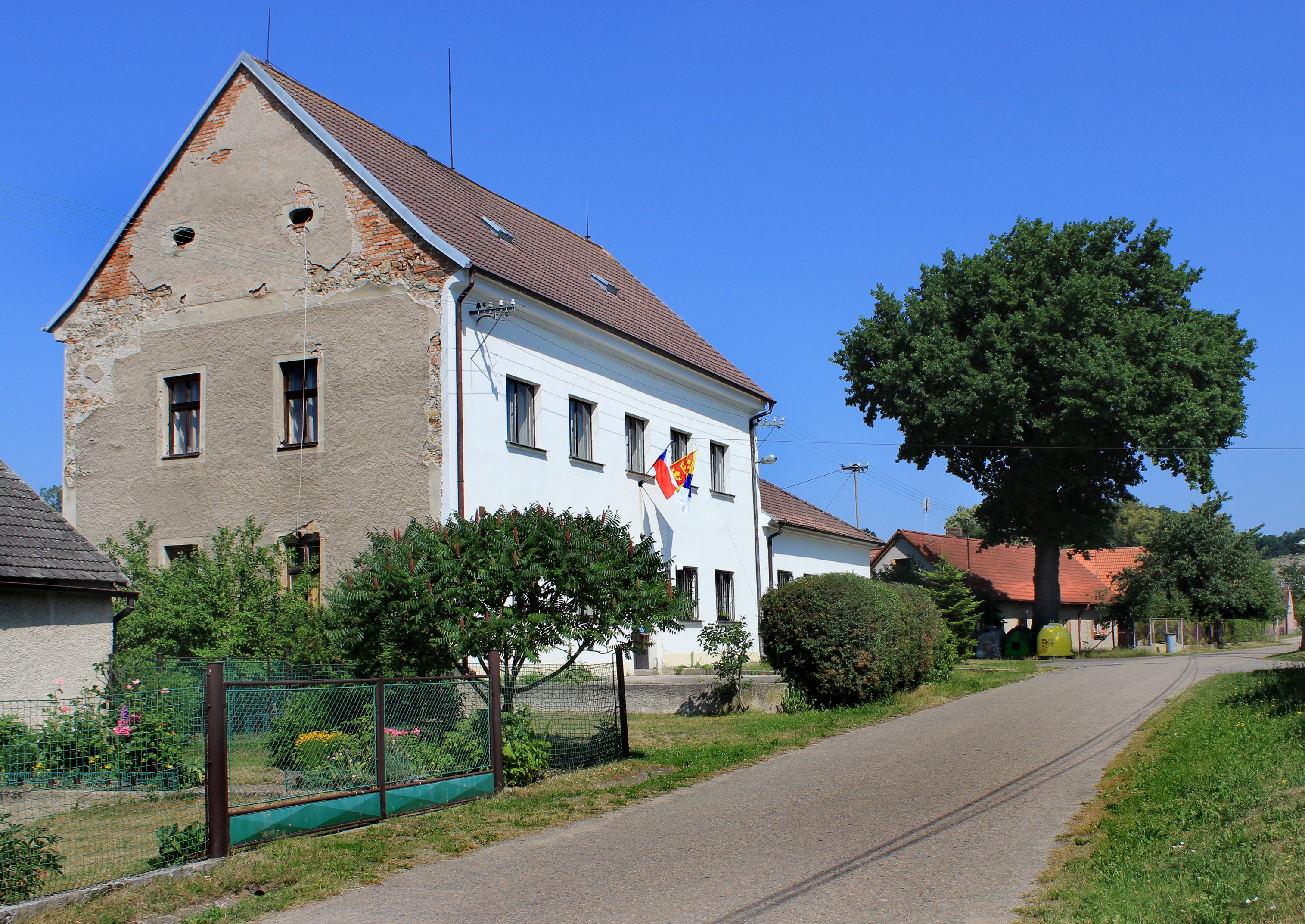 Church in Třebešice, Czech Republic.